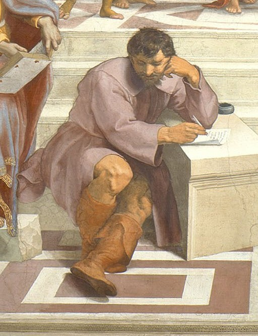 Raphael- School of Athens, detail showing R's portrait of Michelangelo as Heraclitus.